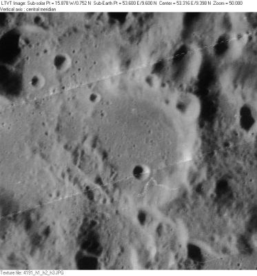 Tebbut lunar crater - Lunar Orbiter - IV image LO-IV-191H.